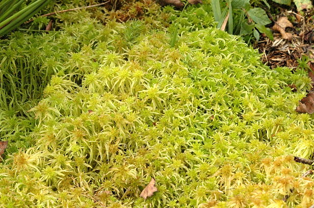 Picture taken in Commanster, Belgian High Ardennes . Species: Sphagnum fimbriatum